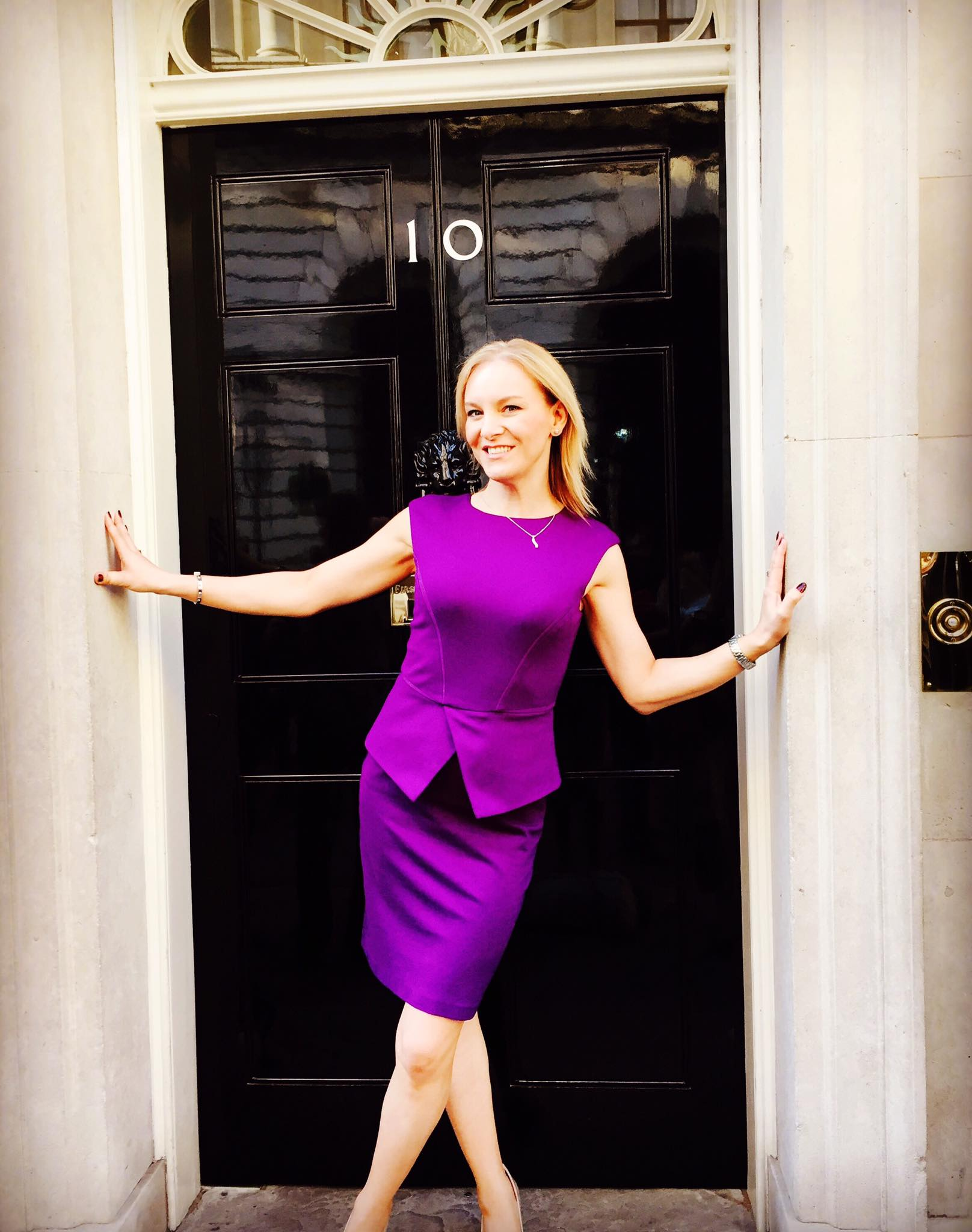 Stephanie Hirst on a recent visit to Downing St.